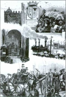 Various illustrations of the inauguration ceremony of the direct line between Madrid and the portuguese border, on Cáceres. This ceremony took place in Cáceres, on the October 1881.